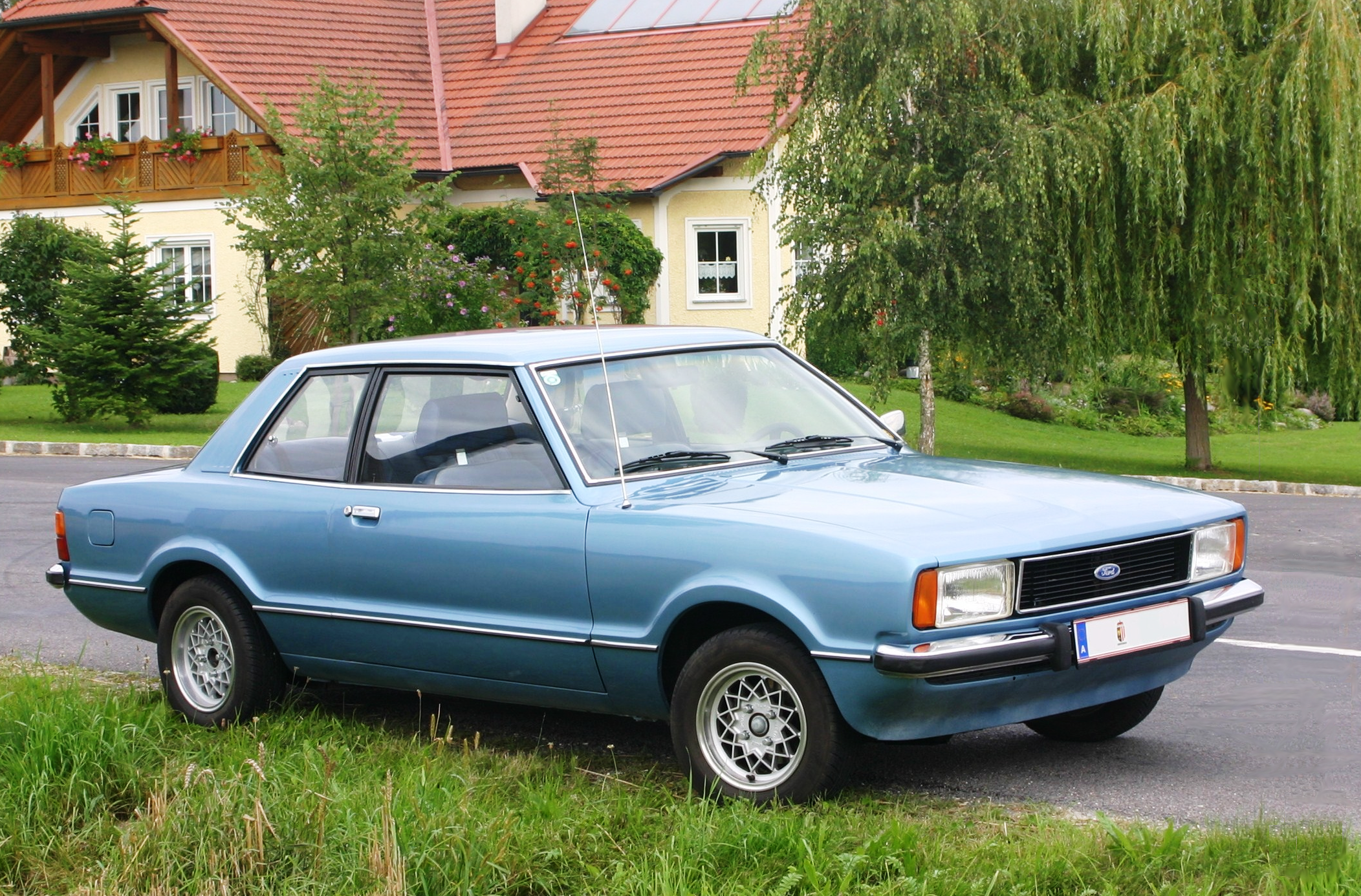 Ford Taunus TCs. I have further cropped a picture uploaded by wiki-user Einar414. I like the picture, especially since someone removed the bollard. The Austrian(?) house in the background is interesting and stylish. But where the picture is used as a fairly small portrait of the car, then I find the beautiful house is also a distracting house. I have NOT repeat NOT changed the excellent picture uploaded by Einar414. But I have created this alternative version to support an entry which I am currently expanding in anglophone wiki on the car. I hope Einar414 is not distressed by what I have done here.